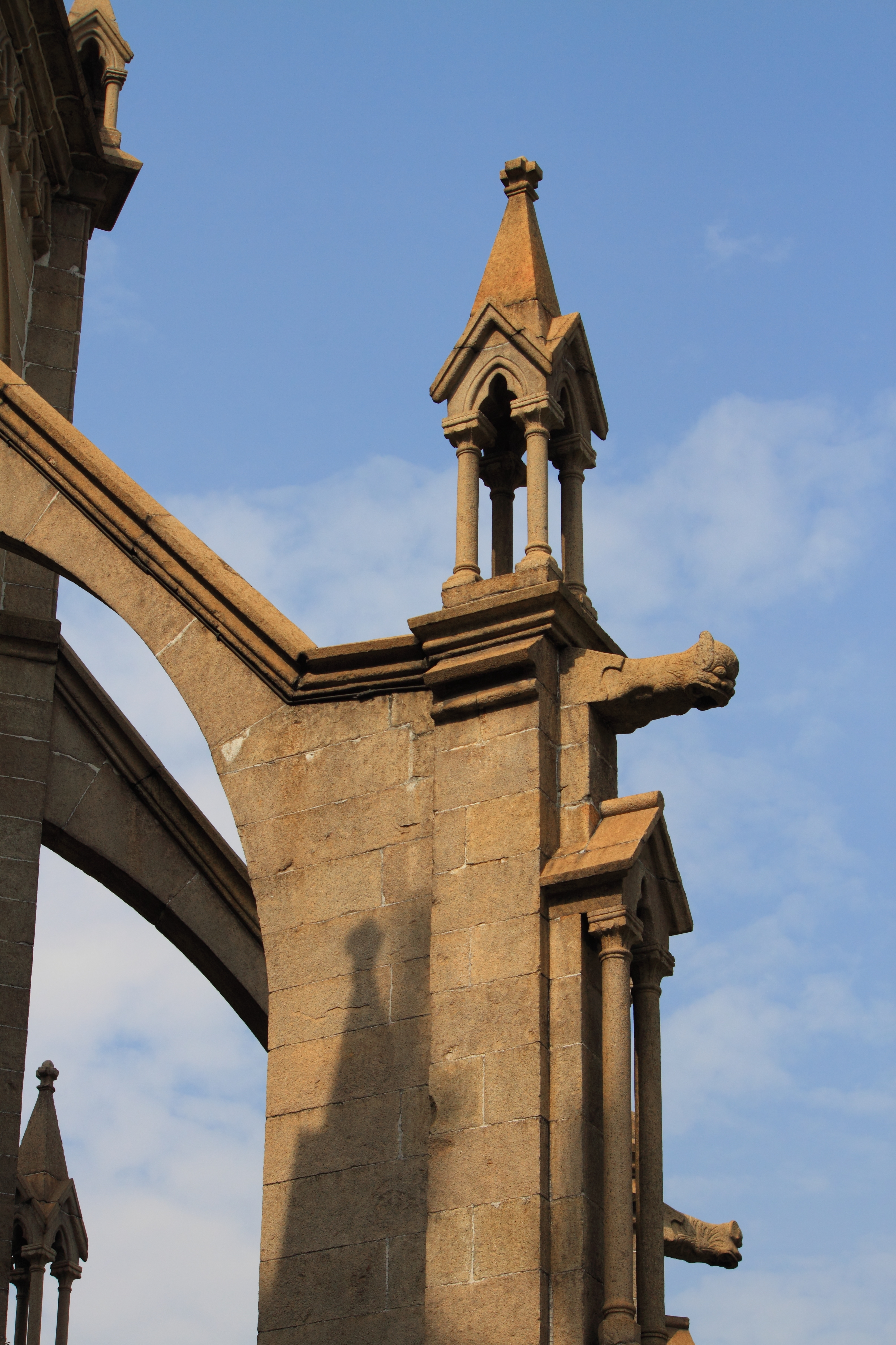 Sacred Heart Cathedral of Guangzhou，in Guangzhou, Guangdong, China.